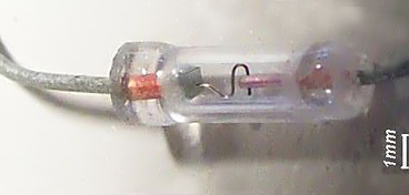 Germanium point contact diode